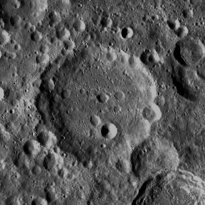 LROC image of Anderson crater